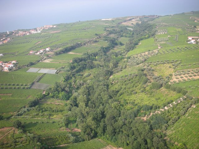 The place where a big italian company wants build a big petroleum factory.